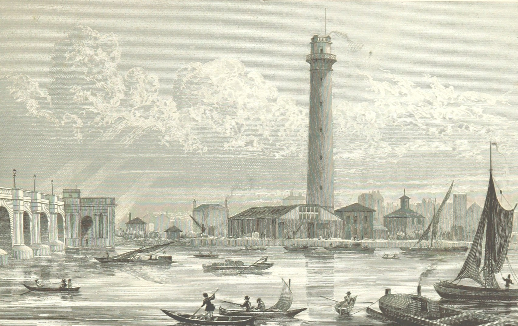 View across the Thames to the Shot Tower of the Lambeth Lead Works, built in 1826 for Thomas Maltby & Co. It was demolished to make way for the Queen Elizabeth Hall, which opened in 1967.